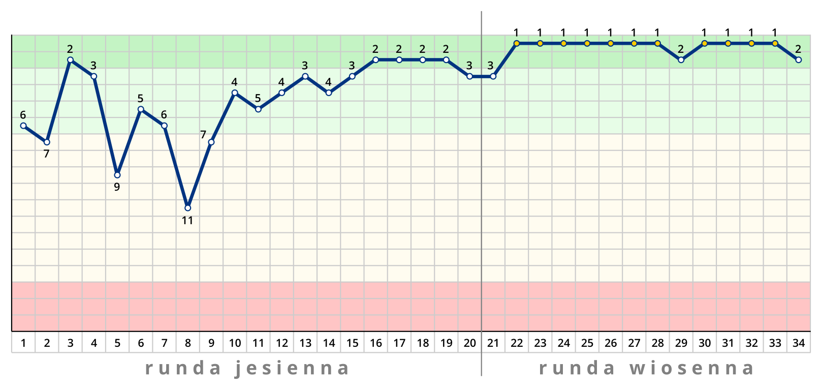 Graph showing performance of Podbeskidzie Bielsko-Biała in 2019–20 I liga season.